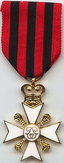 Civic Decoration 1st class (Belgium)